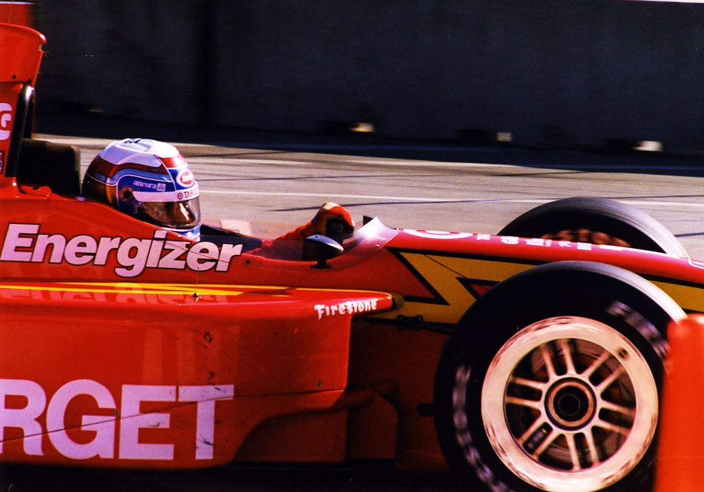 Alex Zanardi at a Champ Car race in Vancouver